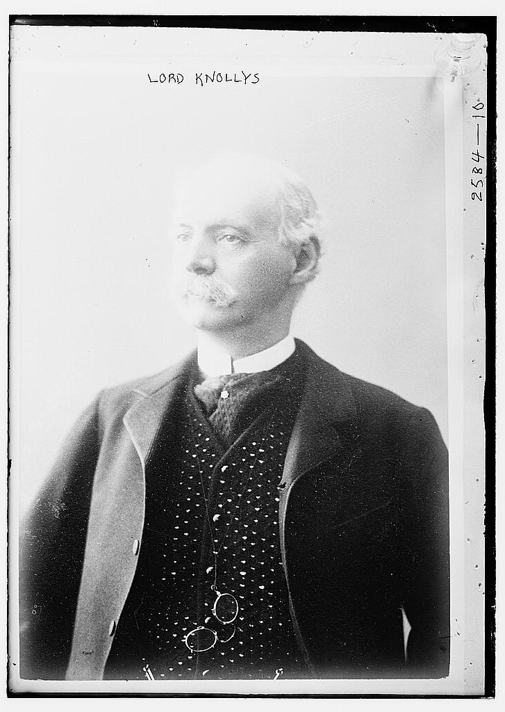 Title: Lord Knollys Abstract/medium: 1 negative : glass ; 5 x 7 in. or smaller.